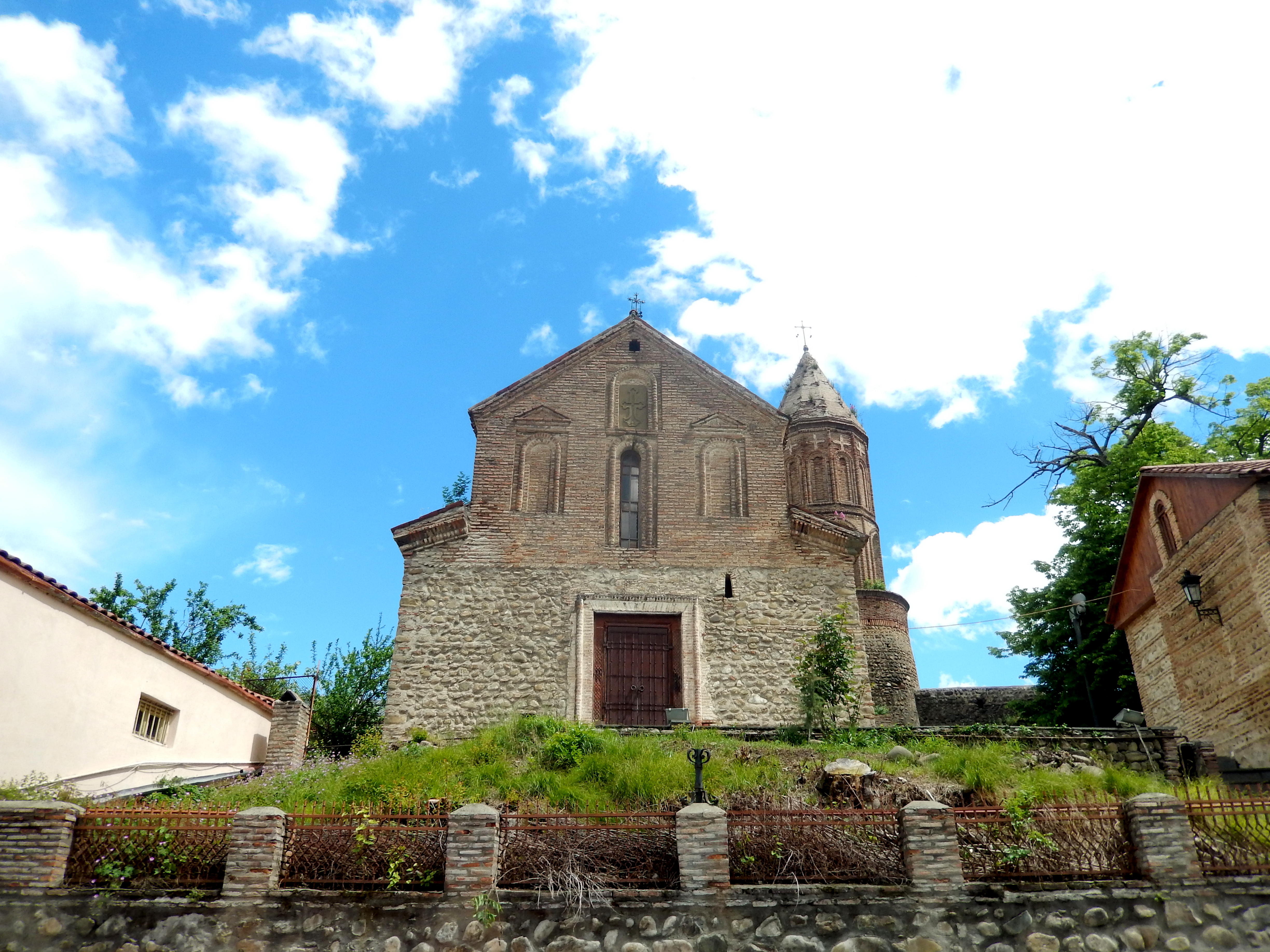 Sighnaghi